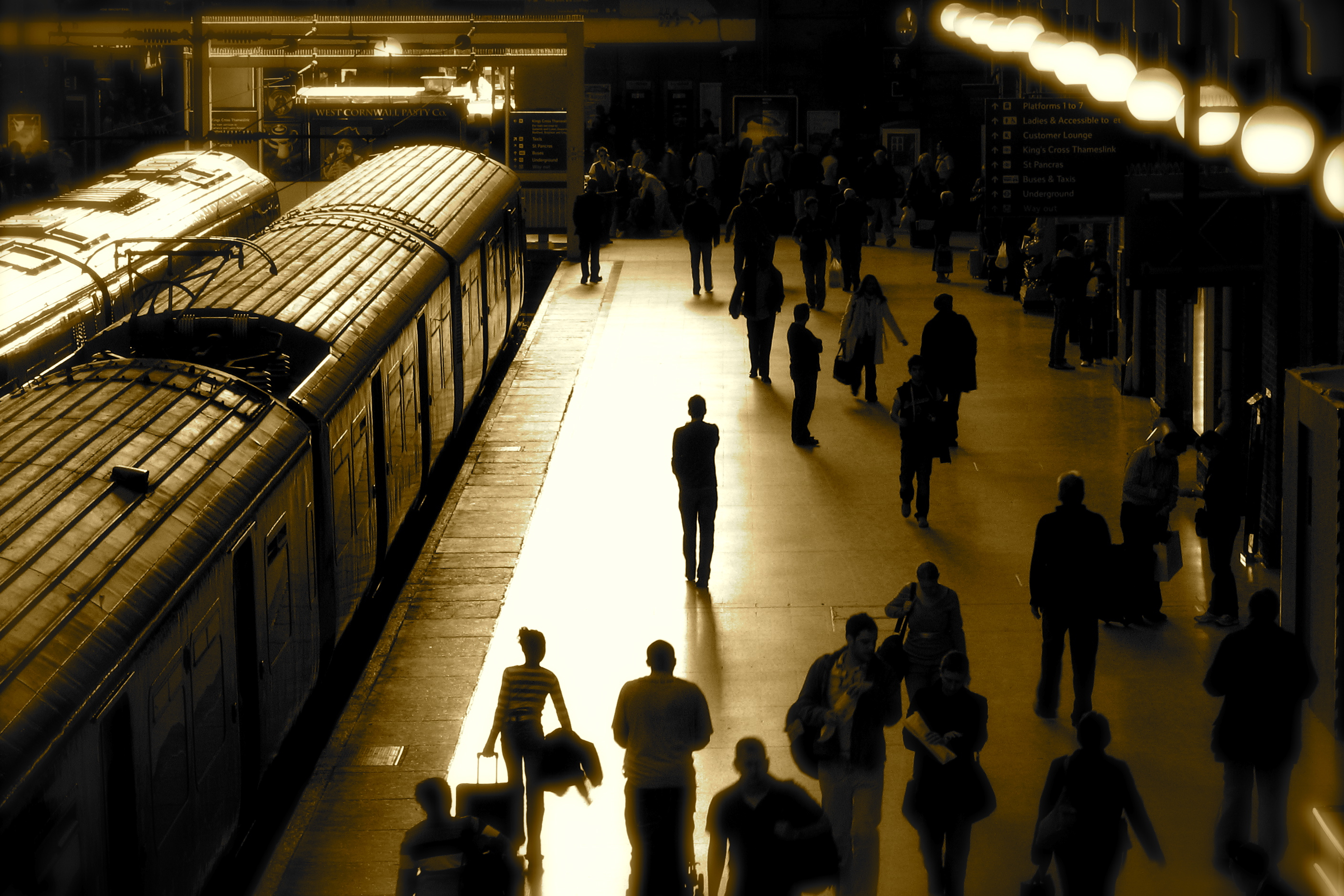 railroad, sepia, portfolio, king's cross railway station, camden